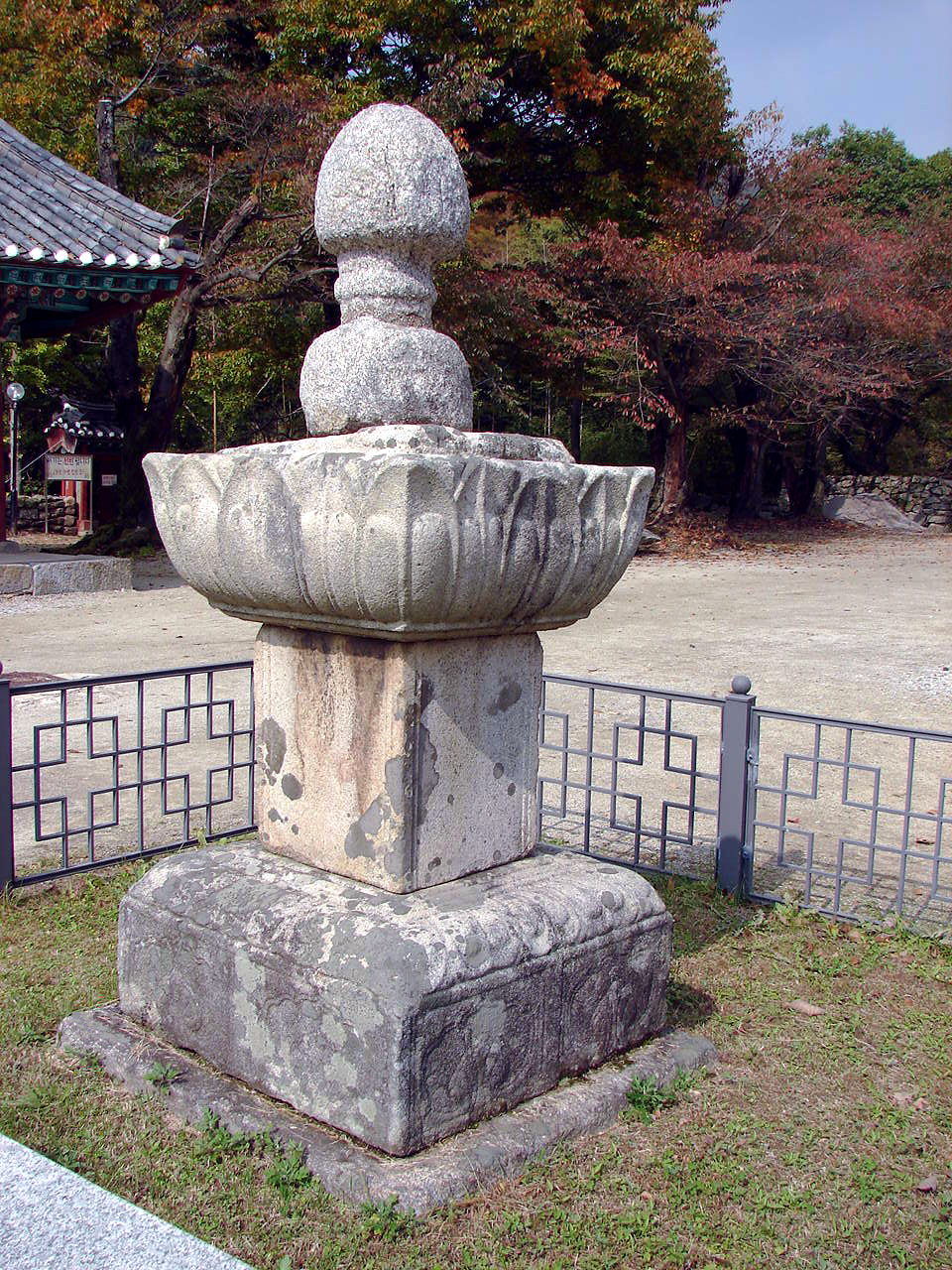 Geumsansanoju - Noju of Geumsansa Temple. Noju (Dew Coated Roof) is believed to date from the early Goryeo period or the 10th century. National Treasure #22.